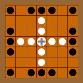 An scheme of the initial piece disposition of the ancient game Fidchell. Based on François Haffner's Ard-Ri's image, which is also in the public domain.